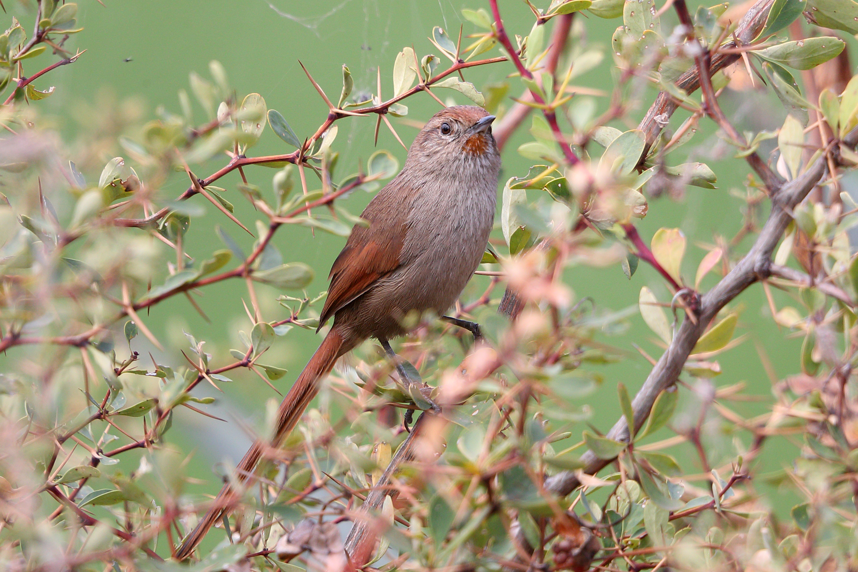 Rusty-fronted Canastero; Laguna Huacarpay, Cuzco, Peru